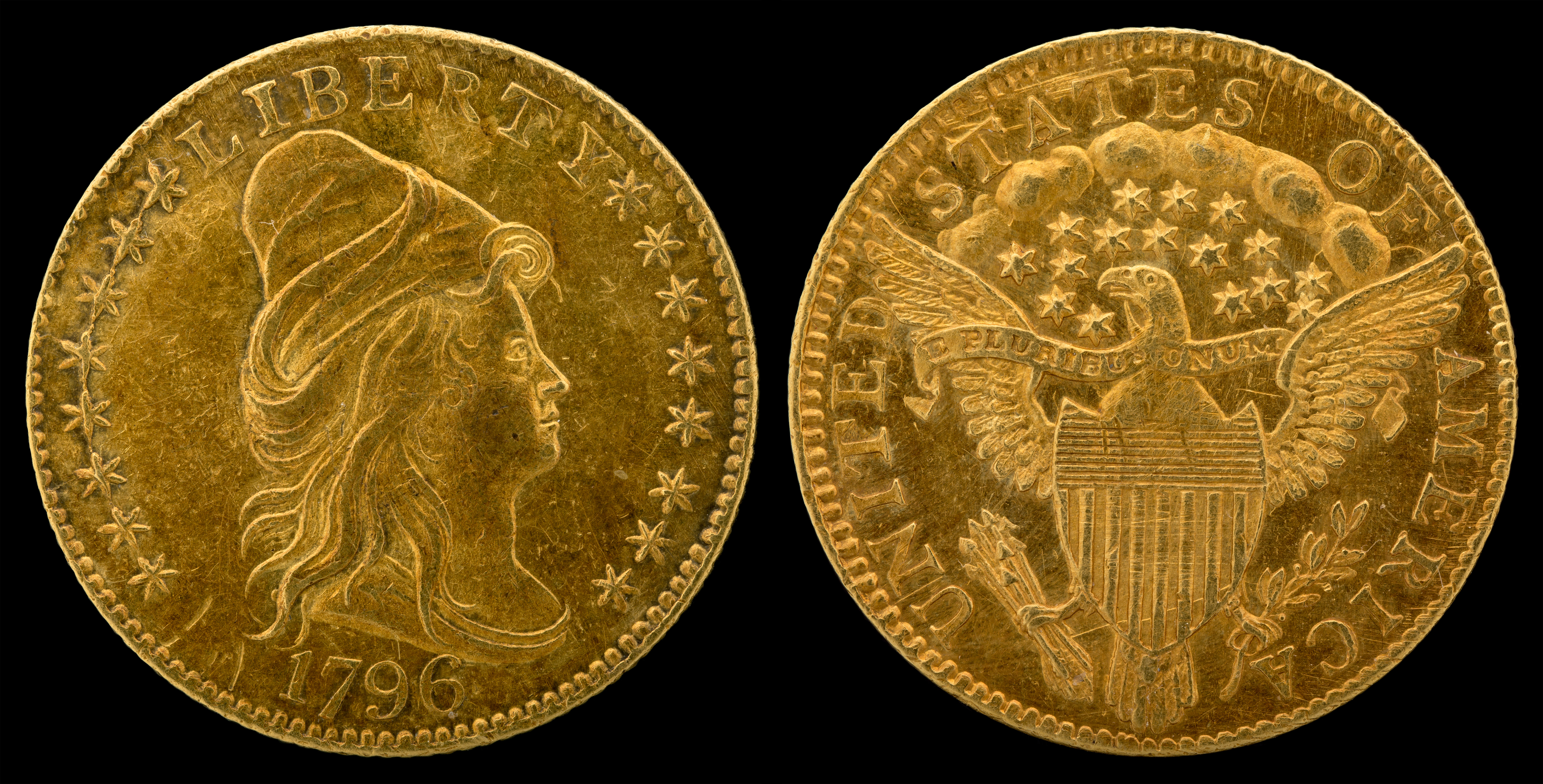 1796 G$2½ Turban Head (or Capped Bust) (stars)Gold (fineness 0.9160), 20mm, 4.37g, designed by Robert ScotJN2015-6716-17